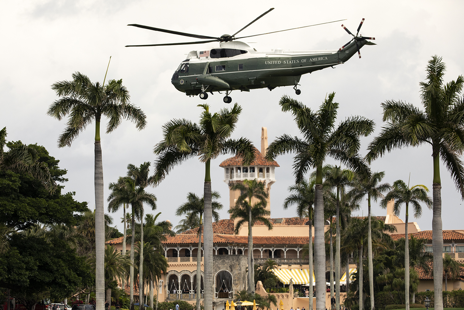 Marine One lifts-off after returning President Donald J. Trump to Mar-a-Lago Friday, March 29, 2019, following his visit to the 143-mile Herbert Hoover Dike near Canal Point, Fla., that surrounds Lake Okeechobee. The visit was part of an infrastructure inspection of the dike, which is part of the Kissimmee-Okeechobee Everglades system, and reduces impacts of flooding for areas of south Florida. (Official White House Photo by Joyce N. Boghosian)